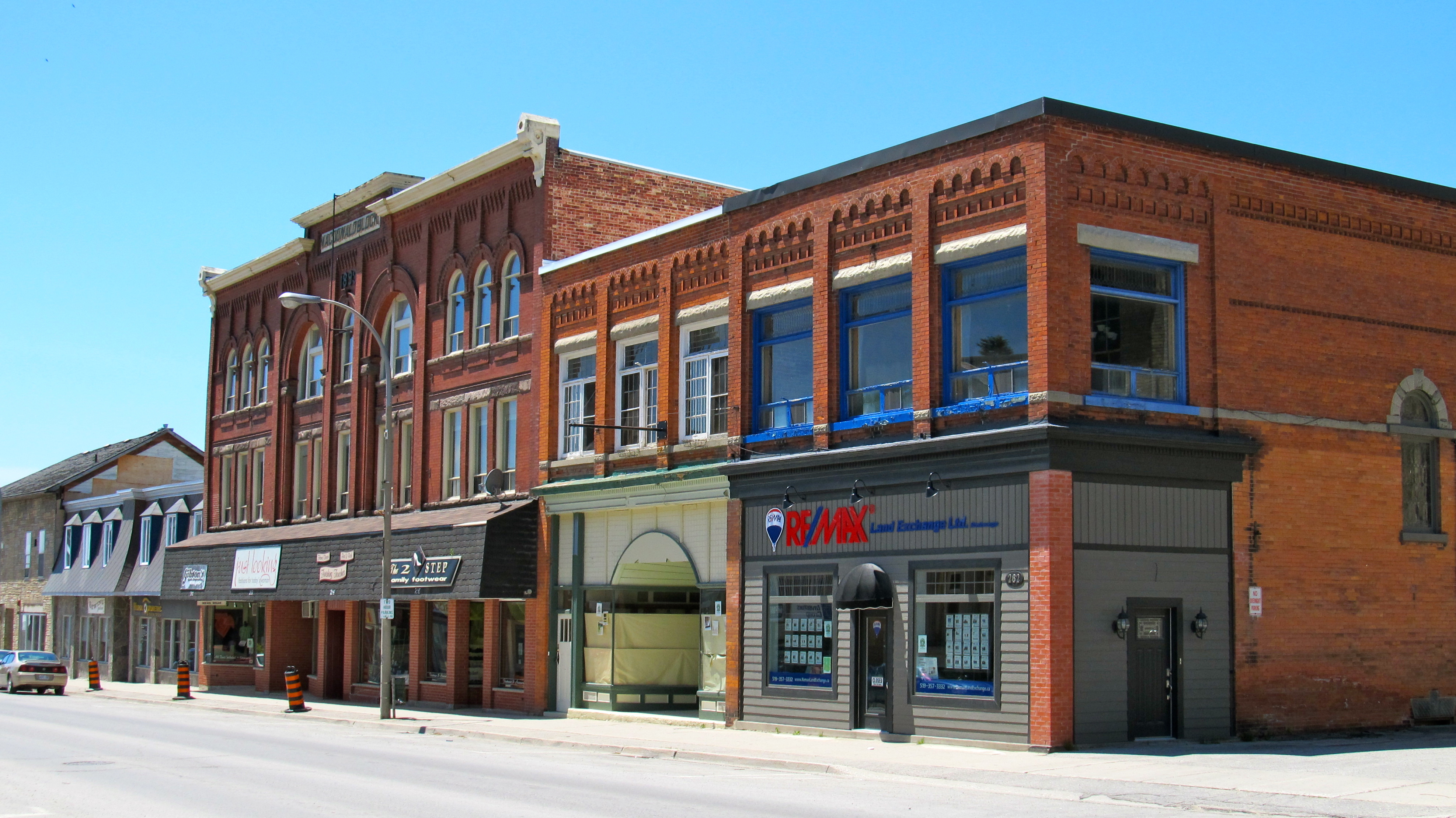 Buildings on London Road in Wingham, Ontario (town's main street)